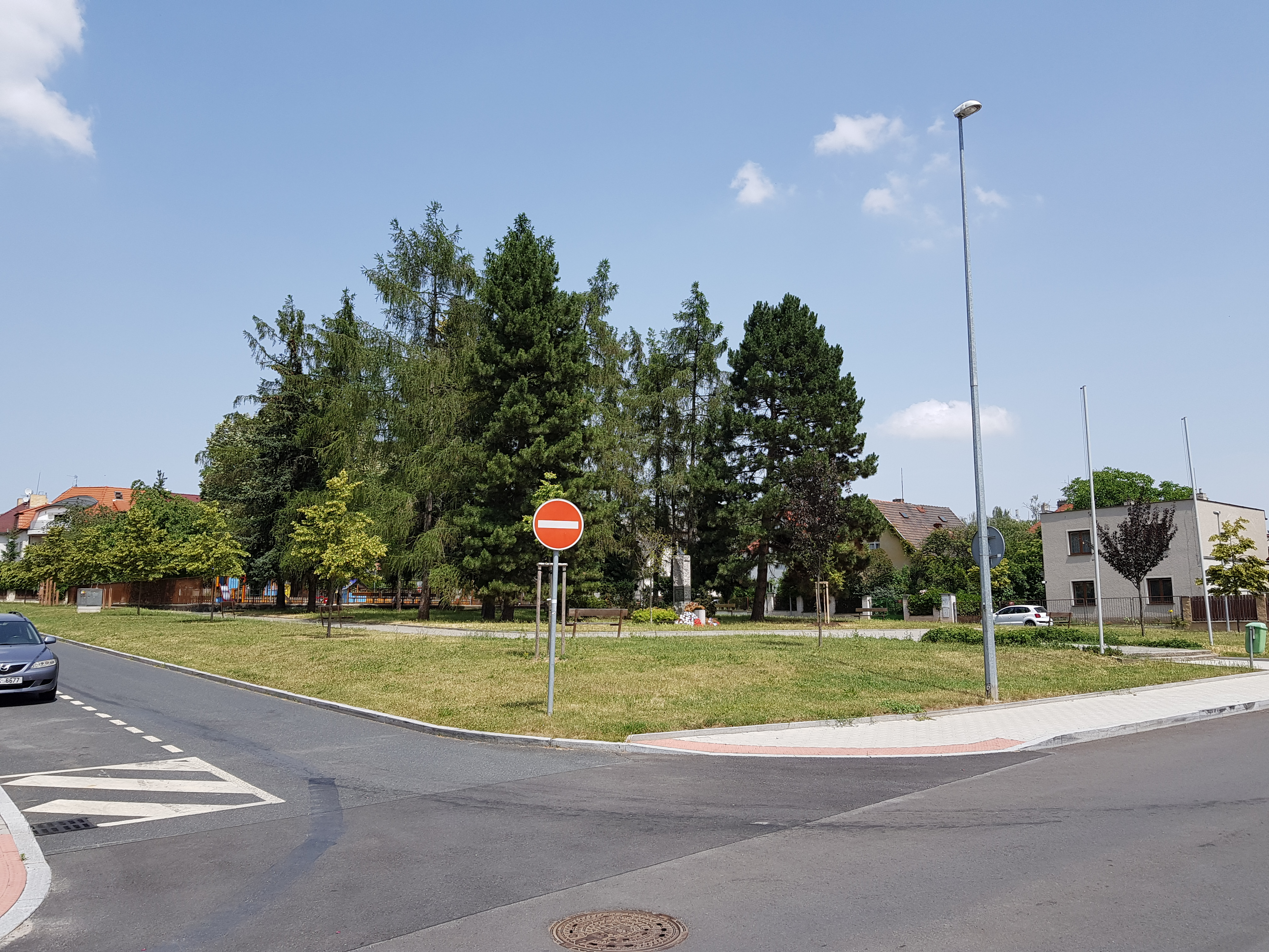 V Novém Hloubětíně Square in Prague-Hloubětín